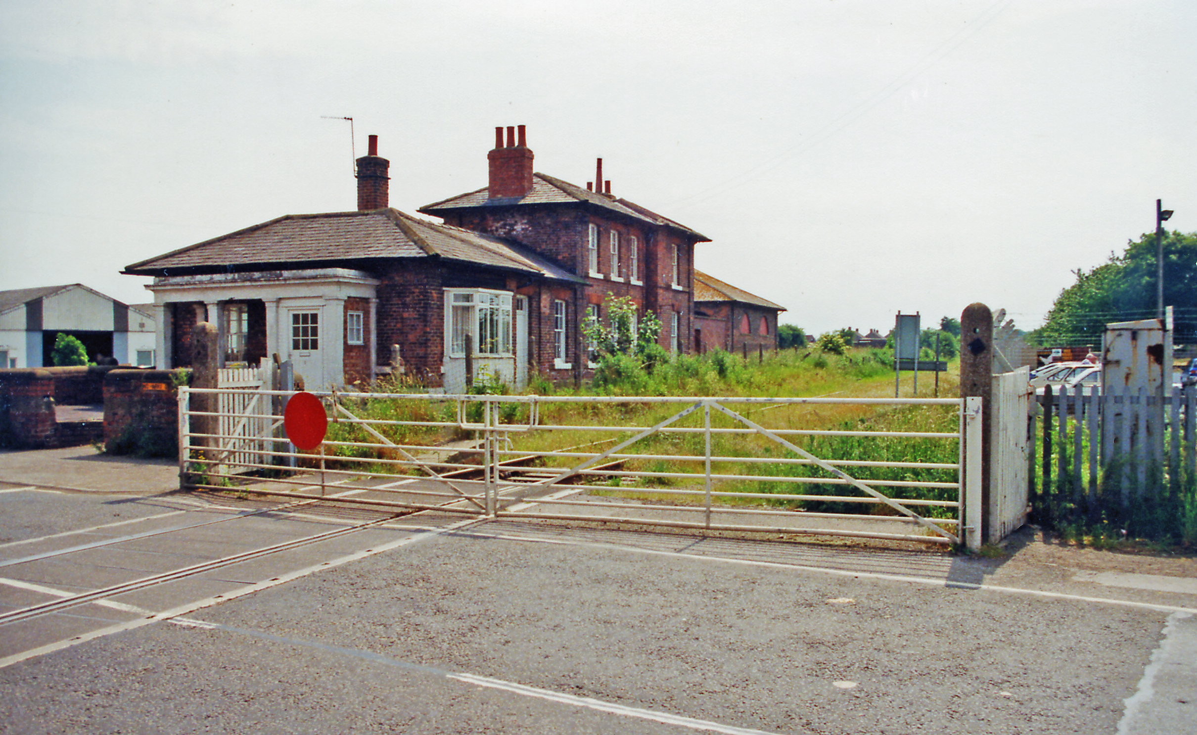 Leeming Bar: disused station in 2000. View SW, towards Redmire and Hawes: ex-NER Northallerton - Hawes, Wensleydale Line. The station and the whole line had been closed to passengers and to goods west of Redmire since 26/4/54, but east of there goods continued until 1992 and Military traffic to Redmire remained. From 7/2003 Northallerton - Redmire has been acquired by the heritage Wensleydale Railway and restored most of the stations.